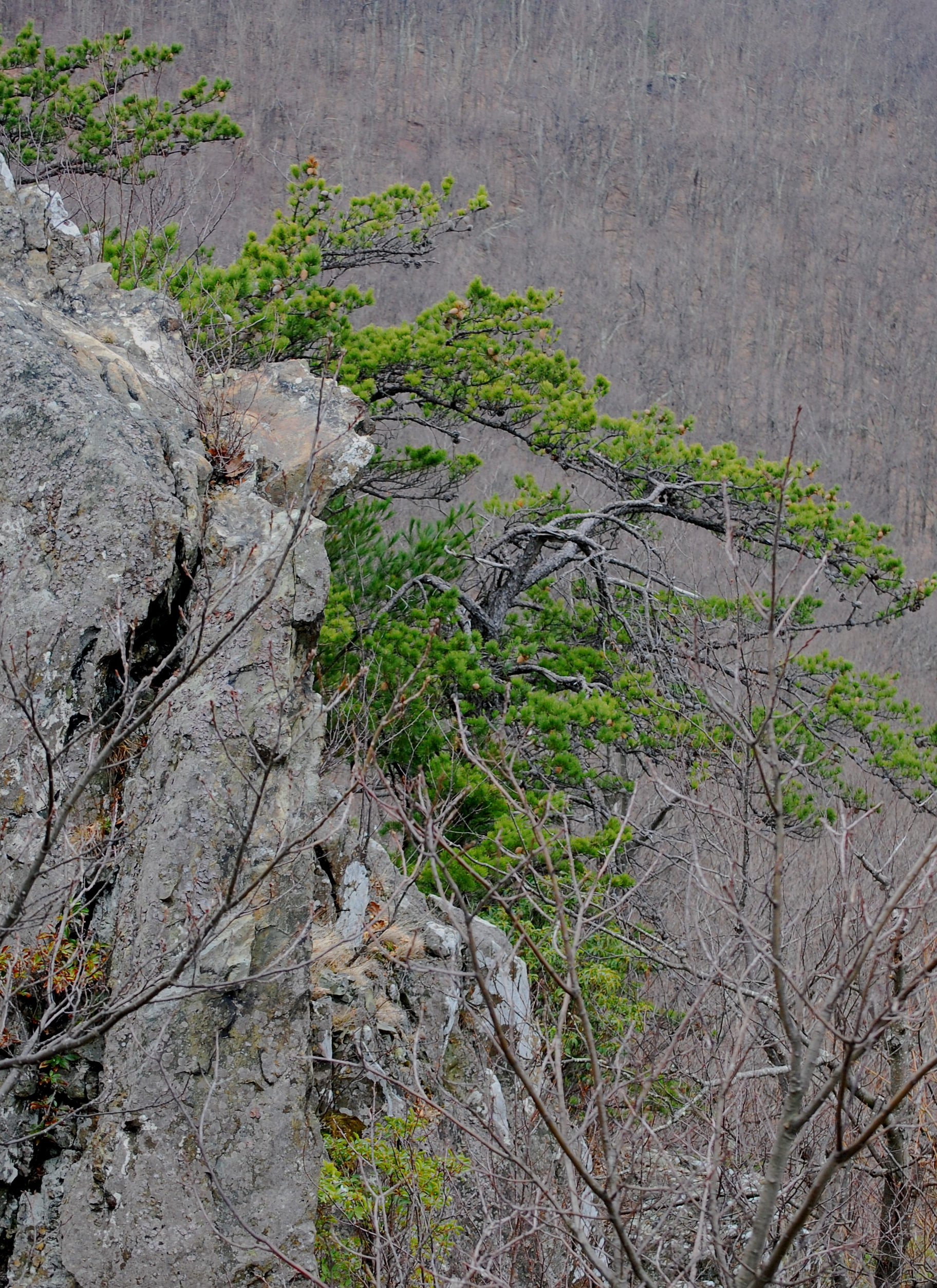 Stunted Pinus pungens trees. Shenandoah National Park, Virginia.